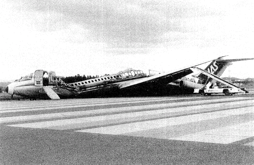 Flight 451 was caught by windshear before touchdown on runway 02. And the aircraft landed hard.